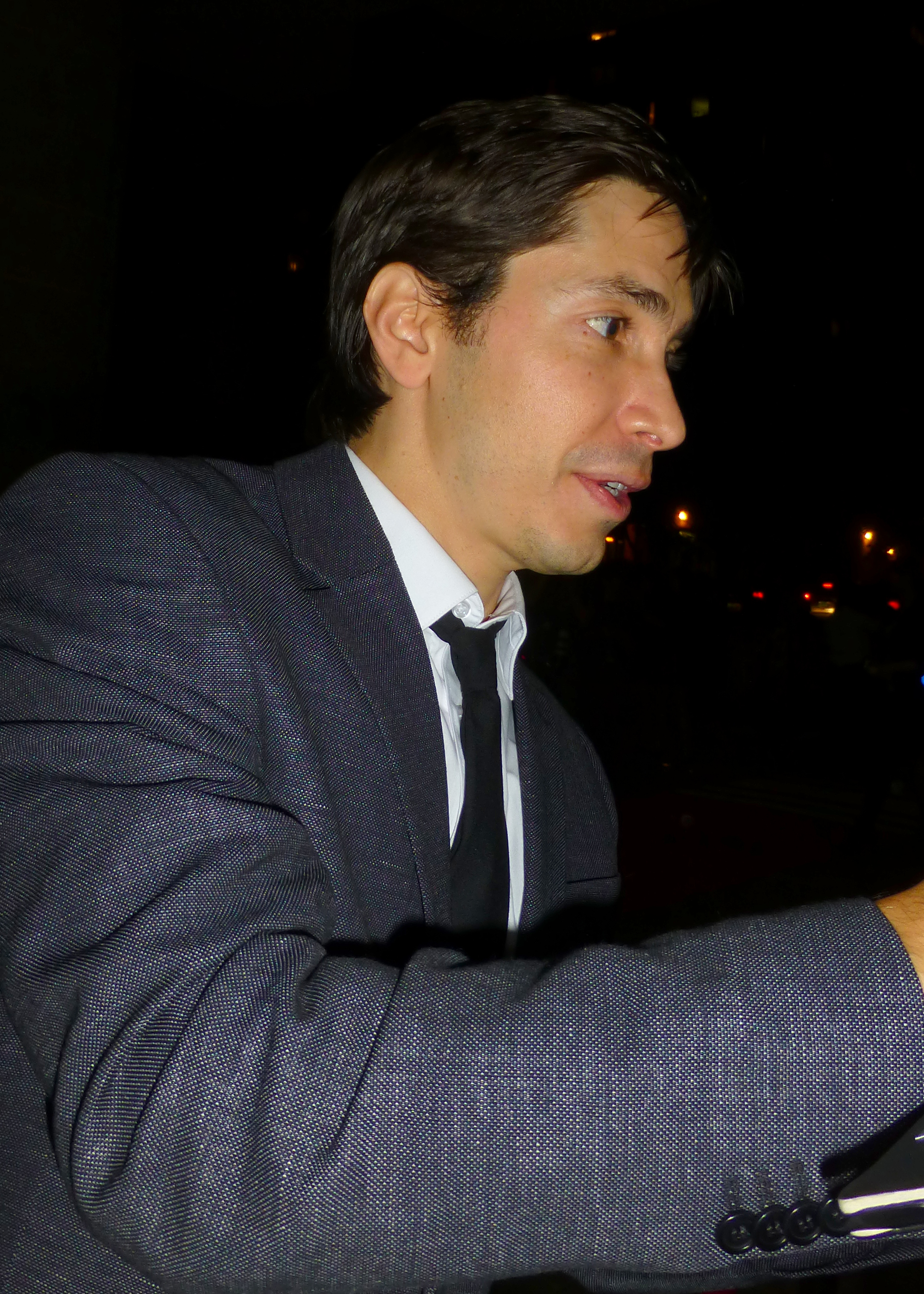 Justin Long at the premiere of Tusk, 2014 Toronto Film Festival